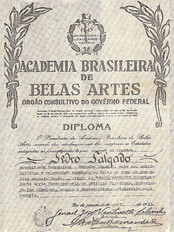 Diploma de conceituado compositor, regente, maestro e músico concedido a Pedro Salgado, compositor brasileiro, em 1973